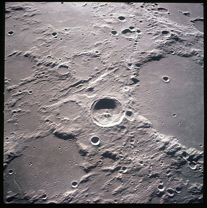 Herschel crater in the centre and Ptolemaeus crater on the right, Moon